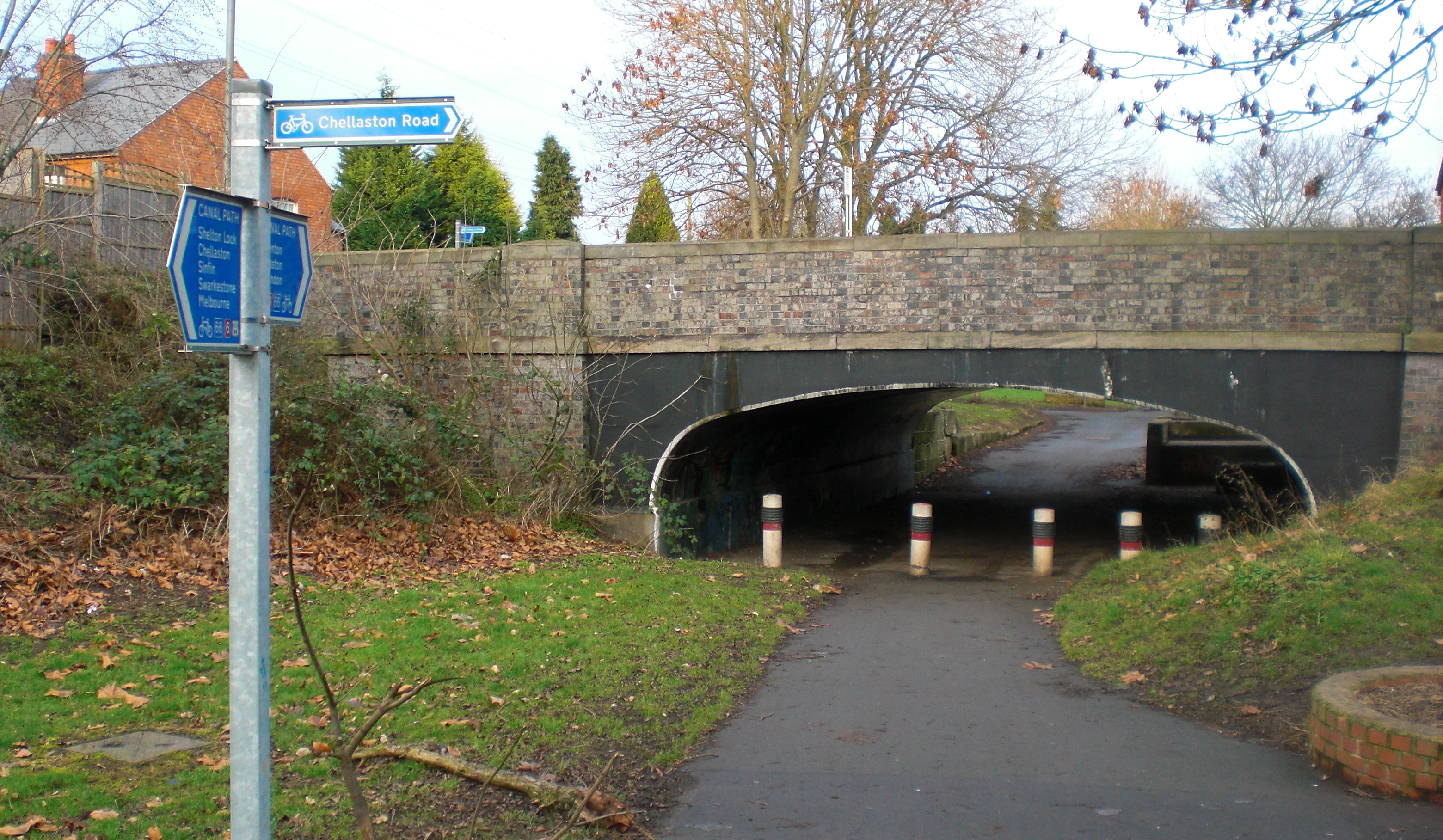 Course of former Derby canal used as a cycle nad walking path